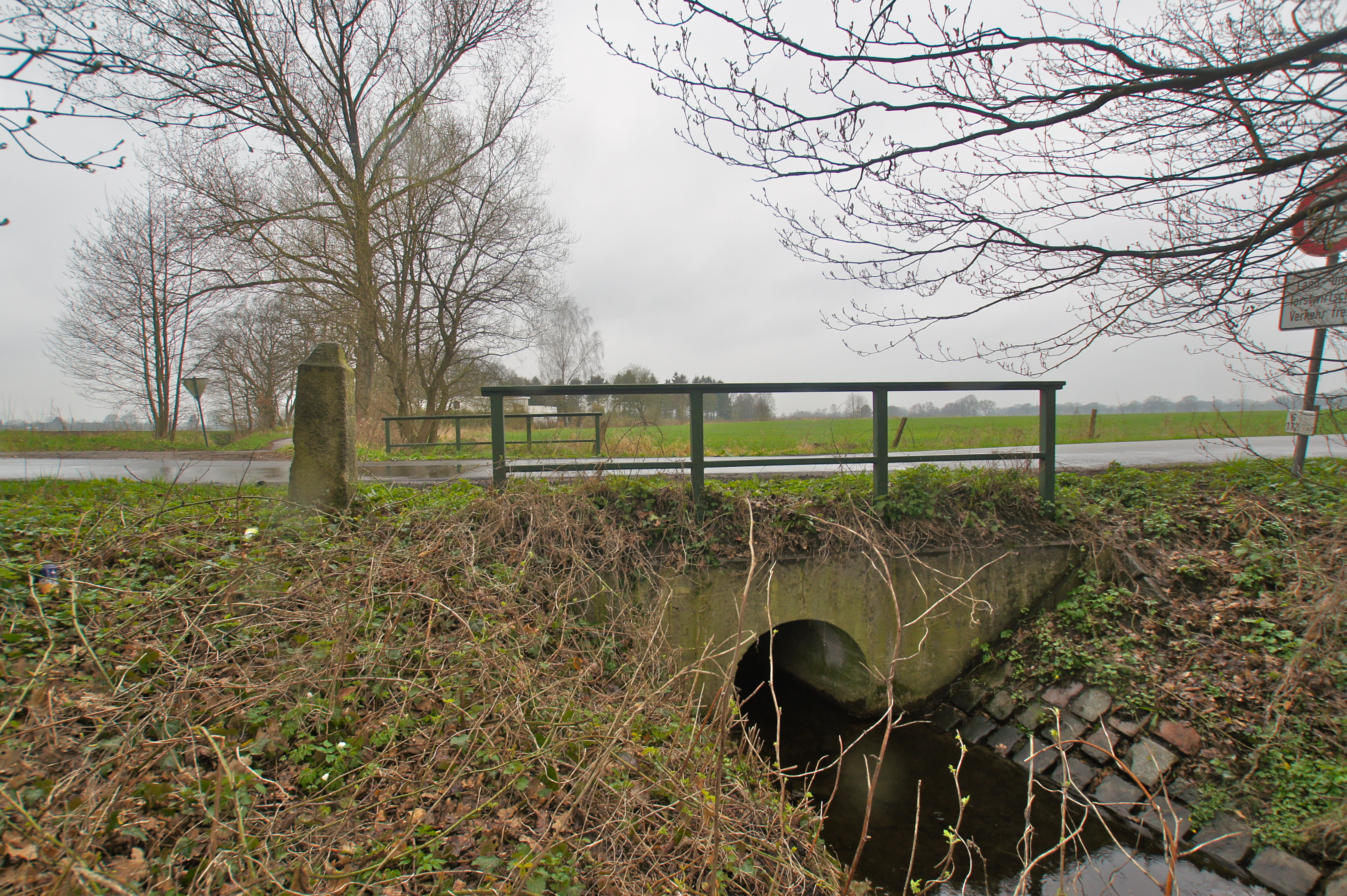 Bilsen, Germany: The river Bilsener Bek at the border with Alvesloh